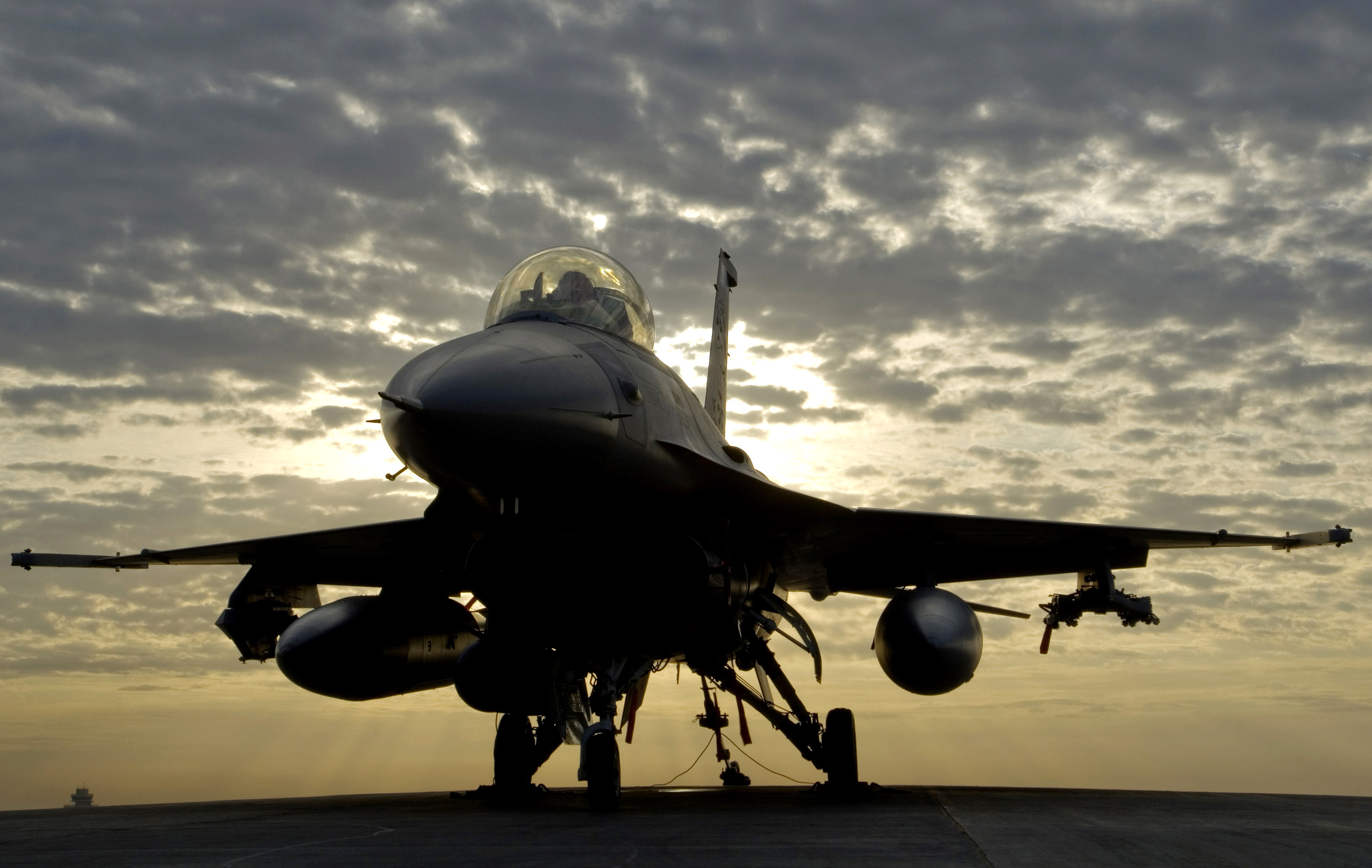 In the early morning of New Years Eve 2008, an F-16C Fighting Falcon sits tethered to the hot cargo pad at Joint Base Balad, Iraq. The aircraft is tethered to secure it in place prior to a full afterburner engine run-up. The Minnesota Air National Guard’s 179th Fighter Squadron carries the 332nd Expeditionary Fighter Squadron designation while displayed Balad in support of Operation Iraqi Freedom. (U.S. Air Force photo/Tech. Sgt. Erik Gudmundson)